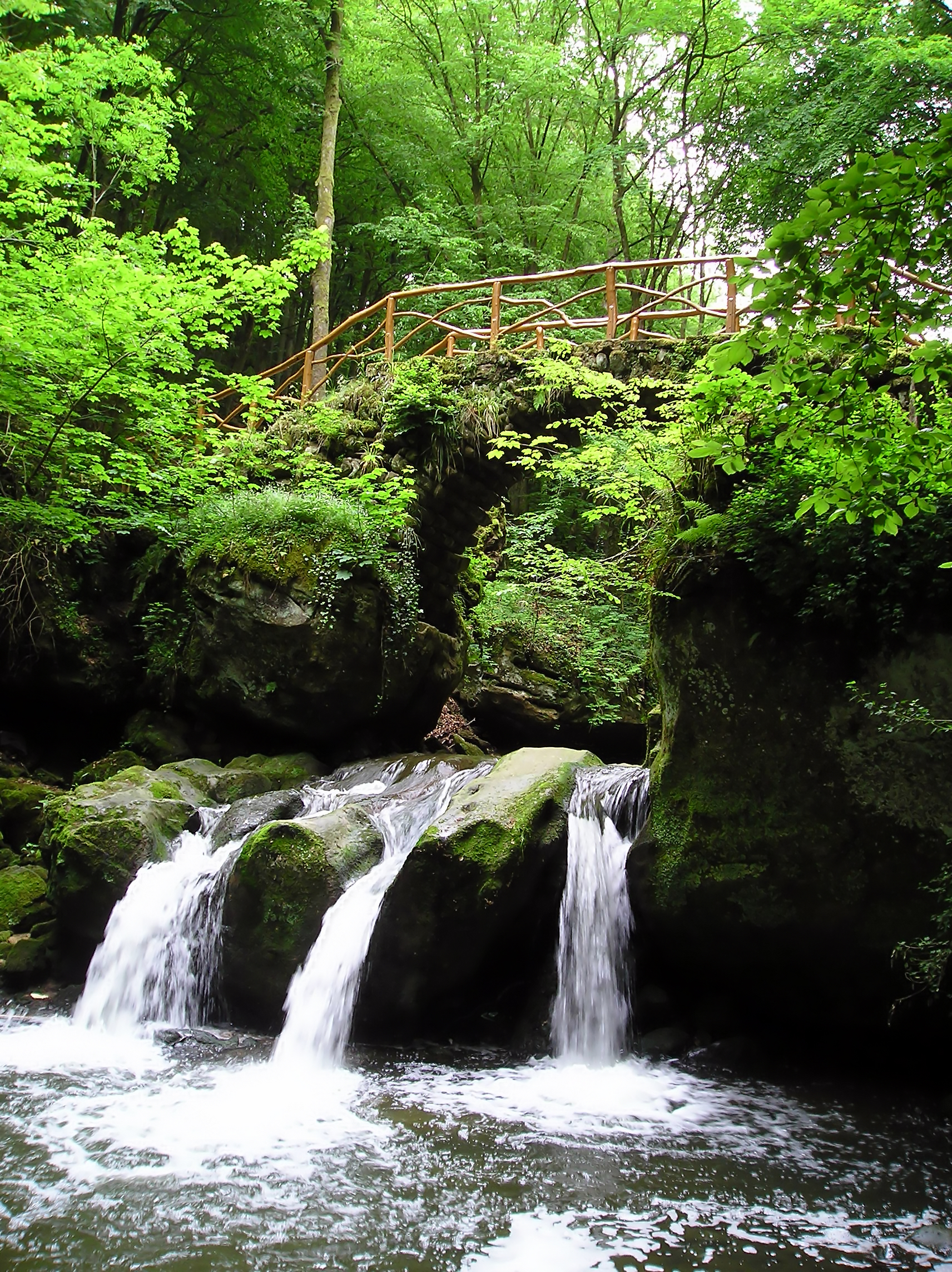 The Schiessentümpel waterfall in the valley of the Ernz Noire in the Mullerthal region in Luxembourg.